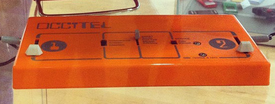 Occitel, Pong console of SOE (Société Occitane D'Électronique) Circa 1975